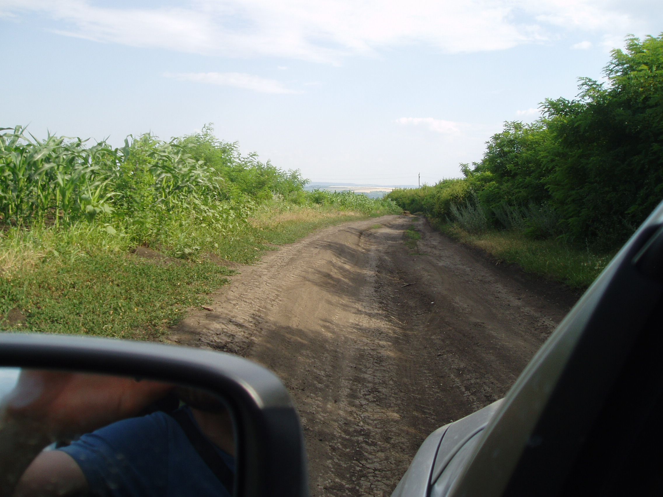 On our way from the airport to Coloniţa, this was the shortest way on the detour i had chosen to get to Coloniţa. We first thought the map and the guys telling us to take this road must have been mistaken, and took the better road. This was the correct road, however. After a while driving on the sides of the cars tires in first gear, however, I gave up and turned around and took an even longer detour route.